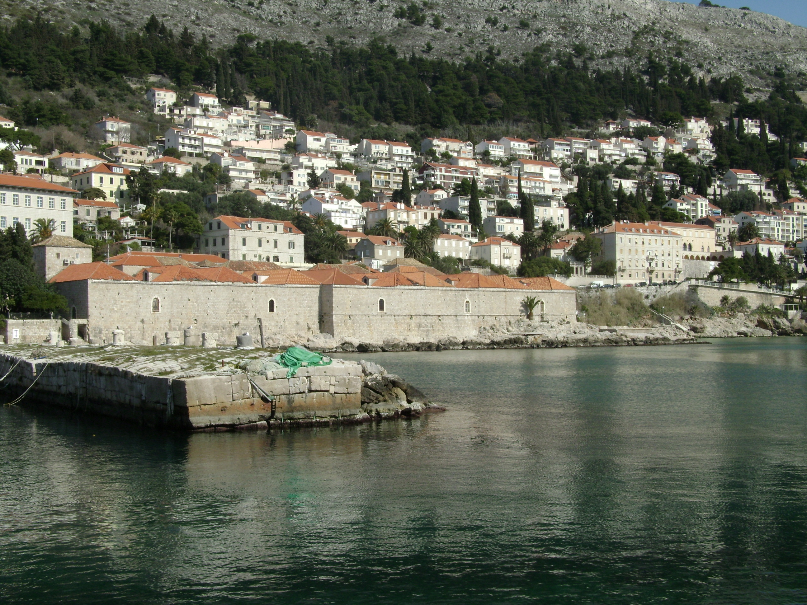 Dubrovnik, old town, monuments Lazareti